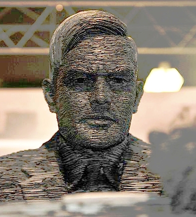 Allan Turing Statue, on display at Bletchley Park